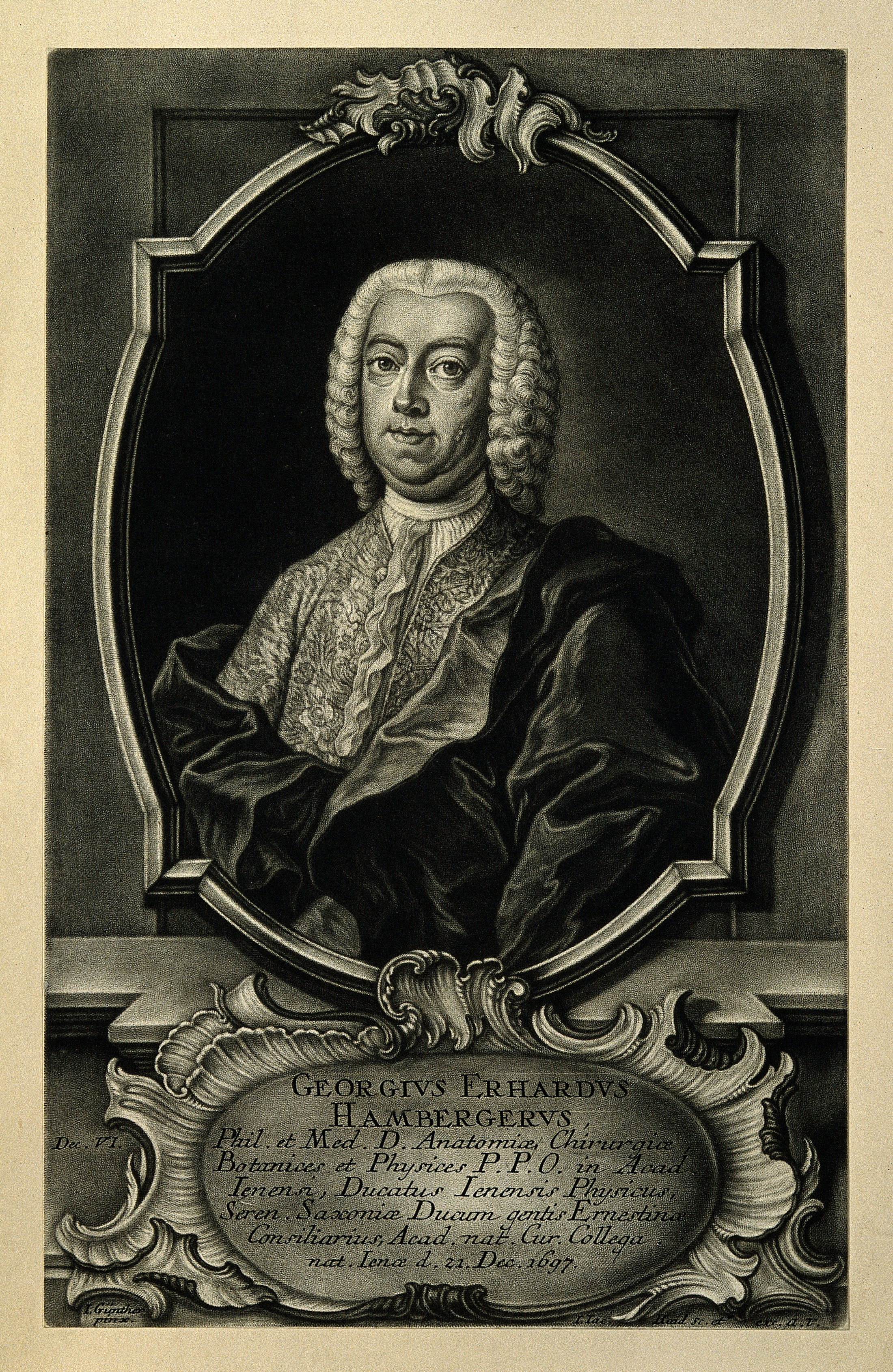 Georg Erhard Hamberger. Mezzotint by J. J. Haid after J. Günther. Iconographic Collections Keywords: portrait prints; Johann-Jakob Haid; Johann Jacob Haid; mezzotints; Georg Erhard Hamberger